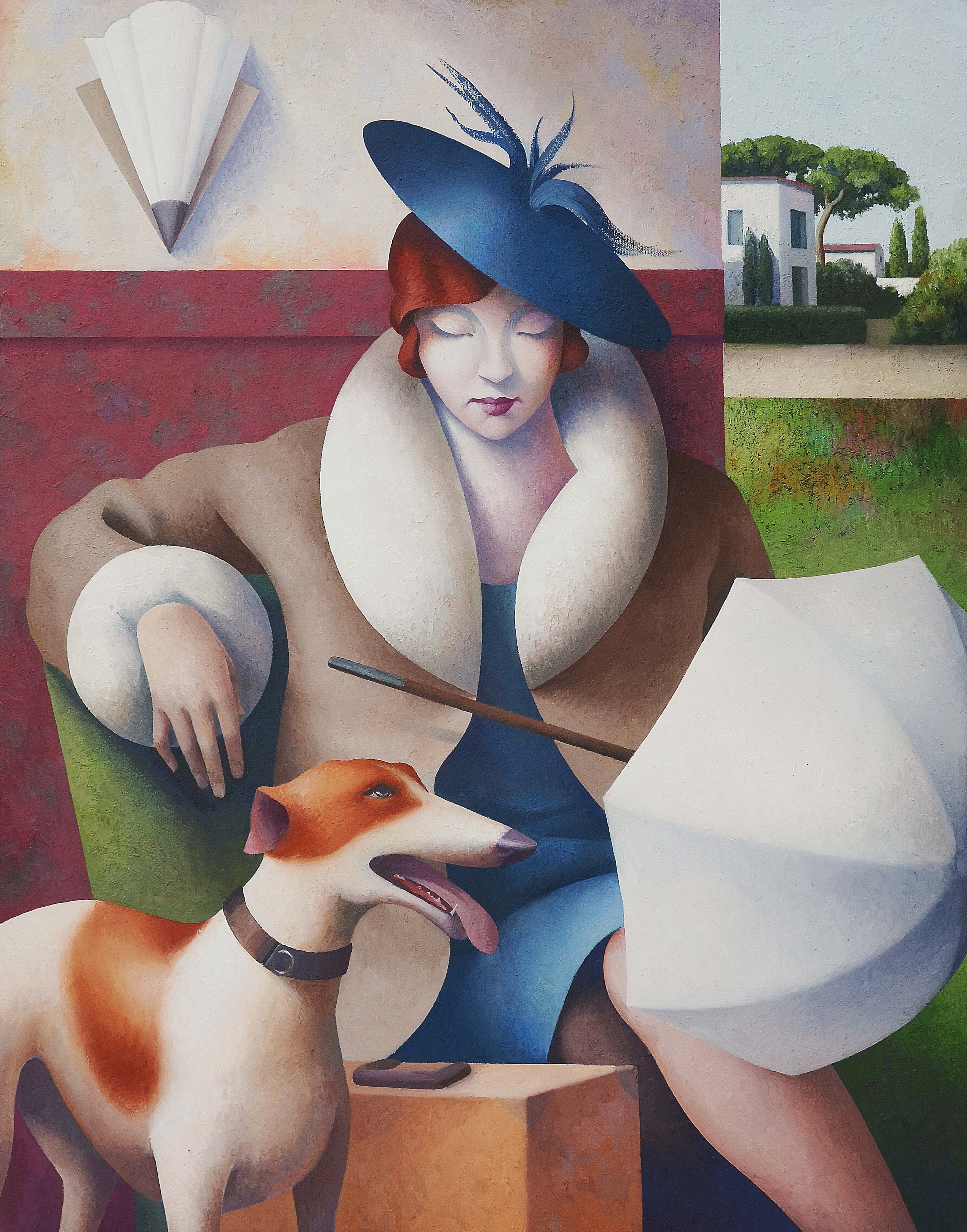 "A Trip in Tuscany" , painting by Fabio Hurtado, Spanish contemporary artist